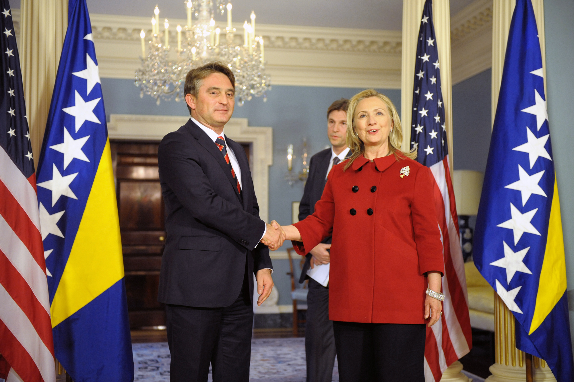 U.S. Secretary of State Hillary Rodham Clinton meets with President of Bosnia and Herzegovina Zeljko Komsic, at the U.S. Department of State in Washington, D.C., on December 13, 2011. [State Department photo/ Public Domain]